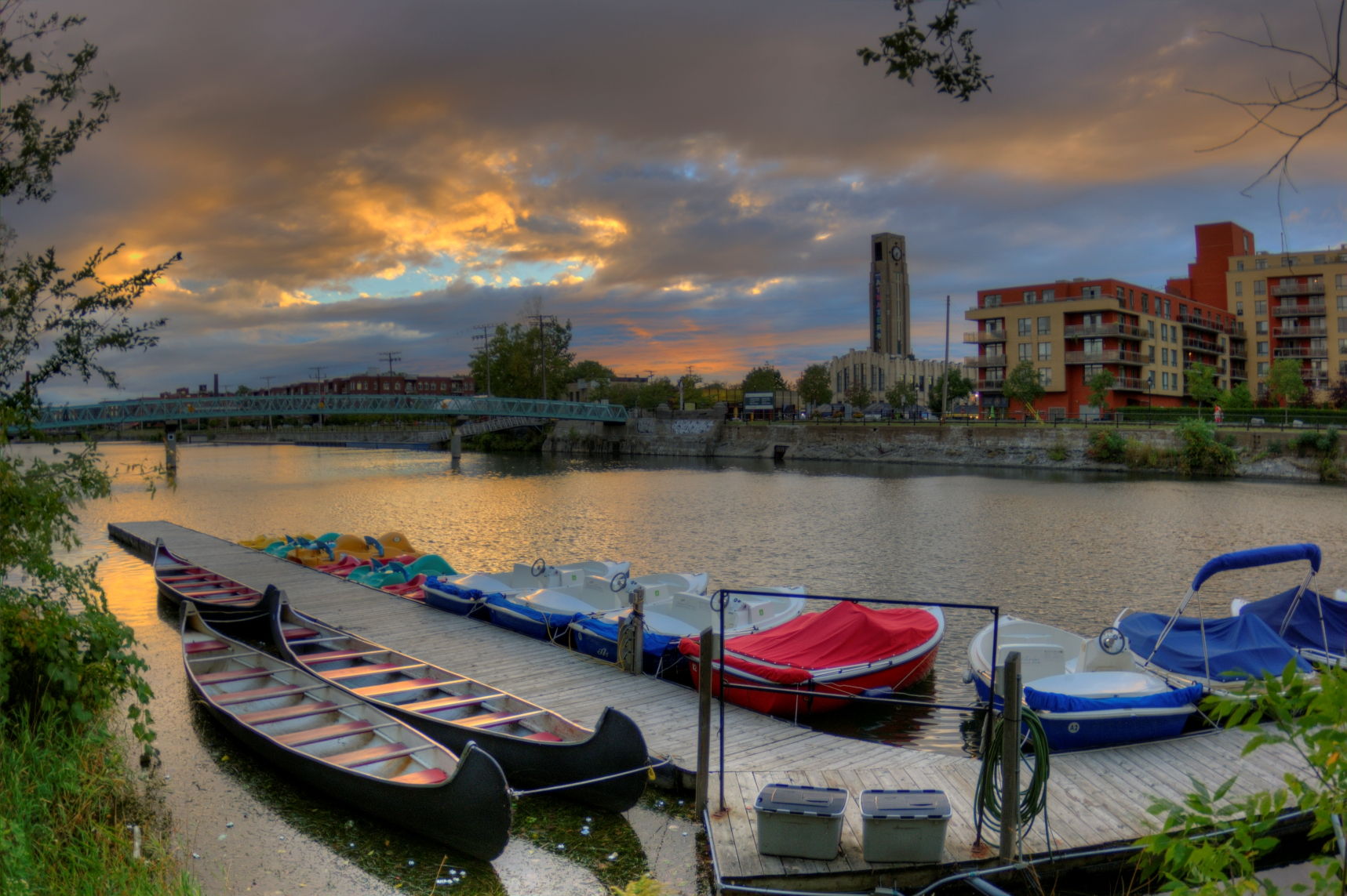 Canal Lachine, view from the south side. The tower of the Atwater market can also be seen in the background.